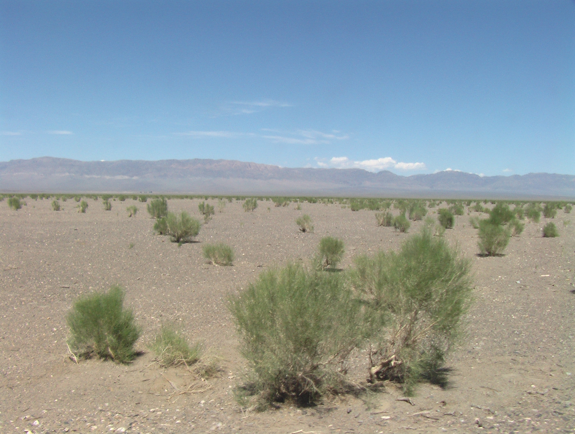 Saxaul (Haloxylon аmmodendron) in Gobi desert, view on Mongolian Altai, Bayantooroi oazis outskirts, Tsogt sum,Govi-Altai aimag, west Mongolia